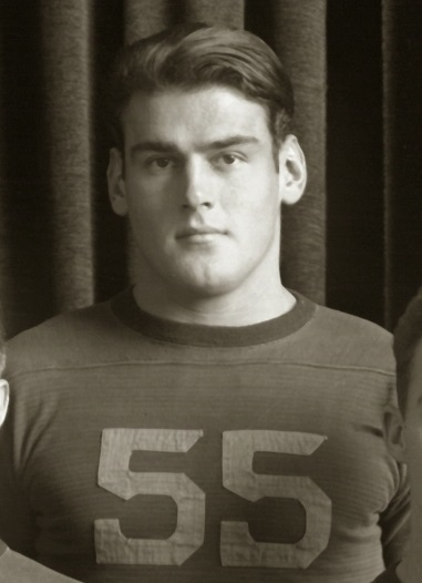 Photograph of Roderick Cox cropped from team portrait of the 1932 Michigan Wolverines football team This work is in the public domain because it was published in the United States between 1923 and 1963 and although there may or may not have been a copyright notice, the copyright was not renewed. Unless its author has been dead for the required period, it is copyrighted in the countries or areas that do not apply the rule of the shorter term for US works, such as Canada (50 pma), Mainland China (50 pma, not Hong Kong or Macao), Germany (70 pma), Mexico (100 pma), Switzerland (70 pma), and other countries with individual treaties. See Commons:Hirtle chart for further explanation. This work is in the public domain in the United States because it was published in the United States between 1923 and 1977 without a copyright notice. See this page for further explanation. Note that it may still be copyrighted in jurisdictions that do not apply the rule of the shorter term for US works (depending on the date of the author's death), such as Canada (50 p.m.a.), Mainland China (50 p.m.a., not Hong Kong or Macao), Germany (70 p.m.a.), Mexico (100 p.m.a.), Switzerland (70 p.m.a.), and other countries with individual treaties.